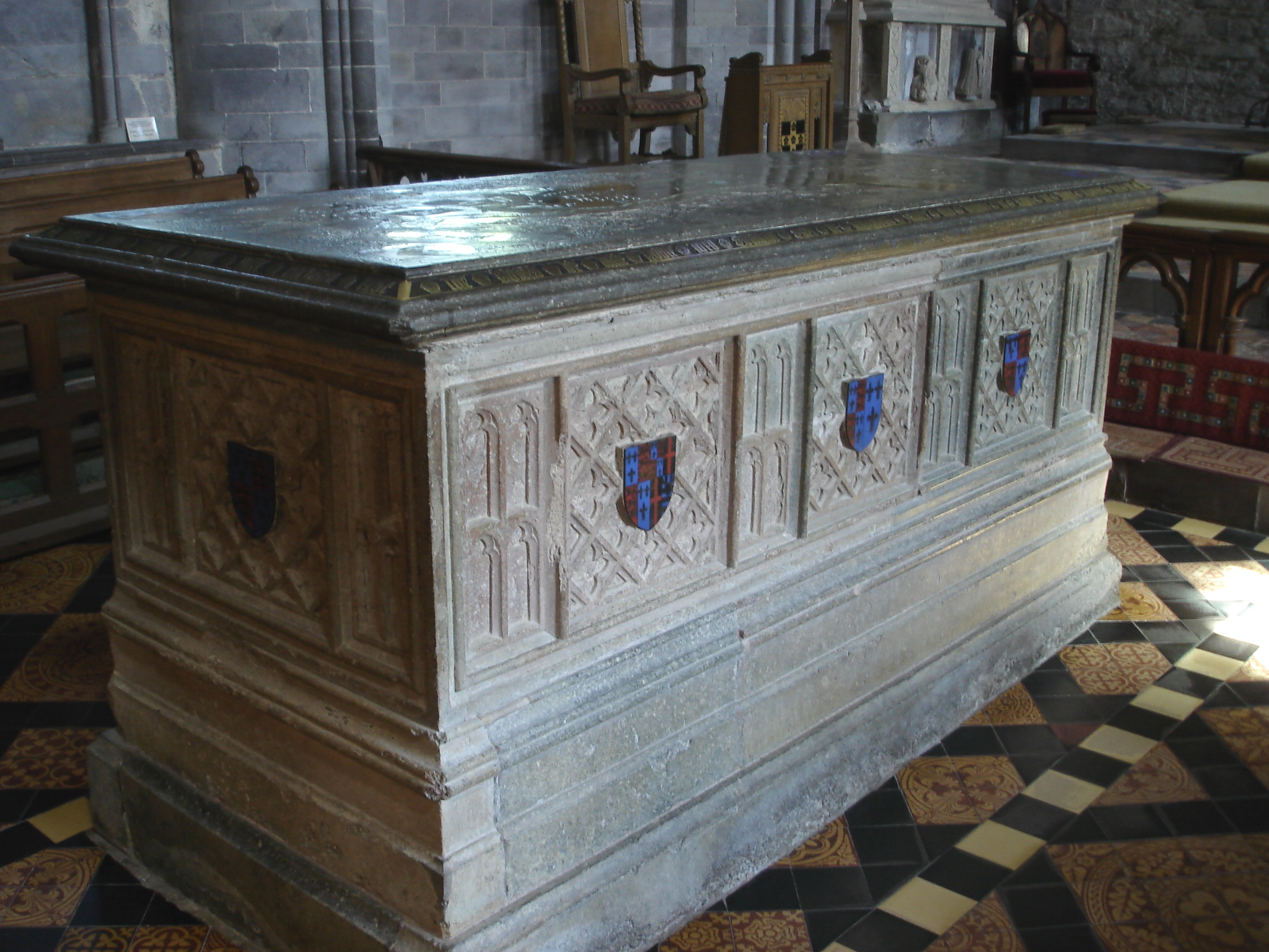 Tomb of Edmund Tudor, 1st Earl of Richmond, in St David's Cathedral, St Davids, Wales